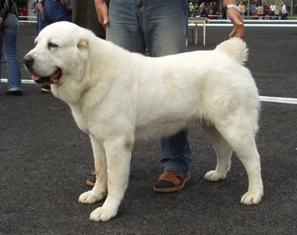 Tobet